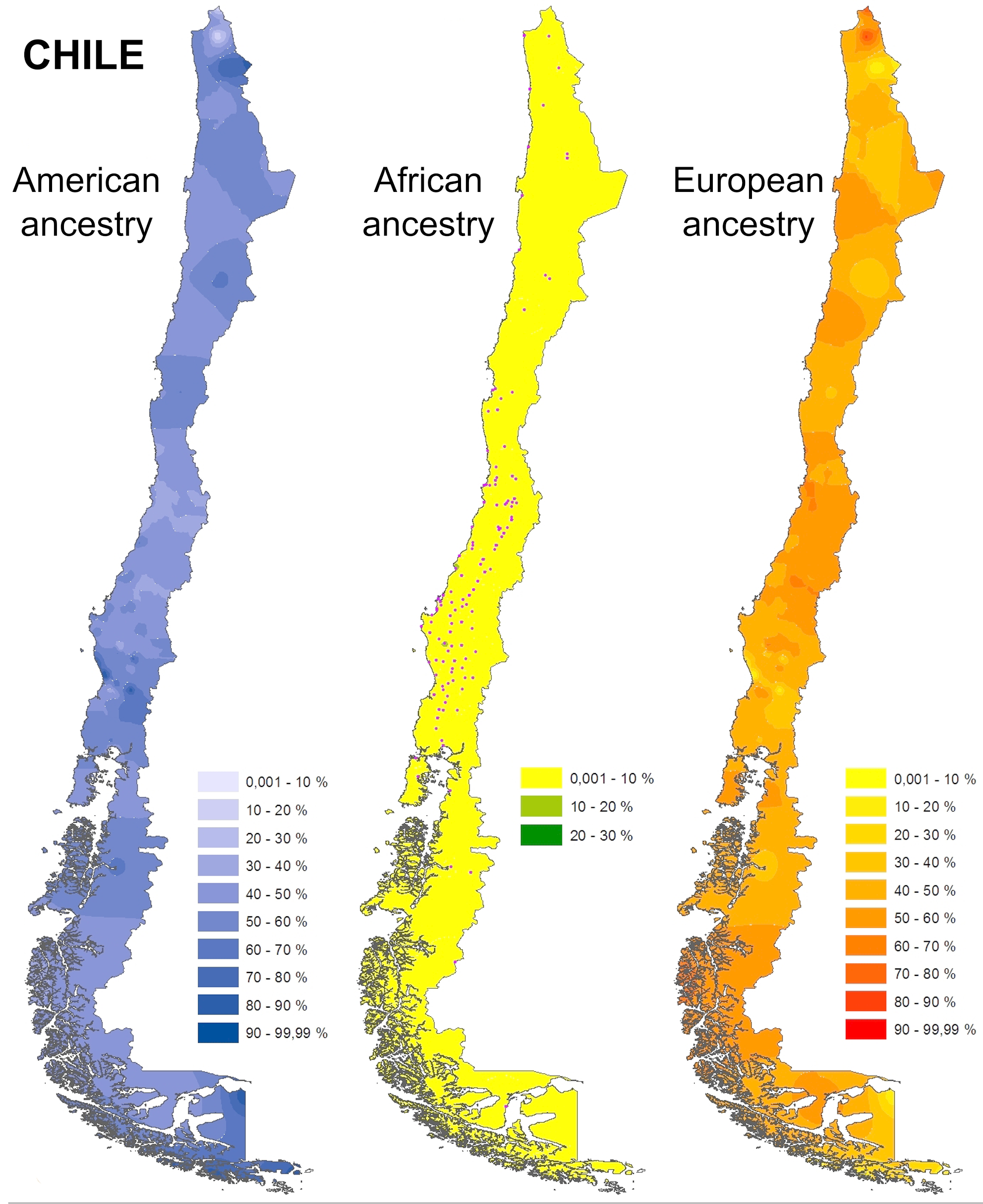 Geographic distribution of Native American (blue), African (green) and European (red) ancestry based on individual estimates for samples from Chile. The Chilean sample shows the least regional variation, with low levels of African ancestry throughout the country. European and Native American ancestry are relatively uniform, although somewhat higher European ancestry is seen around the main urban areas of the north and centre, Native ancestry predominating elsewhere, particularly in the south. To facilitate comparison, color intensity transitions occur at 10% ancestry intervals for all maps. The birthplace of individuals are indicated by purple dots on the African ancestry map. Cropped from File:Geographic ancestry distribution of Brazil, Chile, Colombia, Mexico and Peru.png.